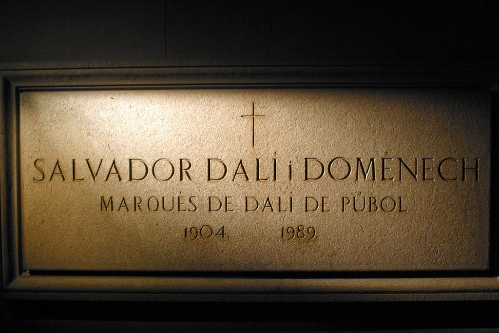 Salvador Dalí Crypt in Dalí Theatre and Museum, Figueres, Spain